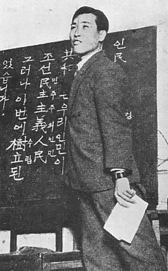 Korean Ethnic Education（朝鮮民族教育）